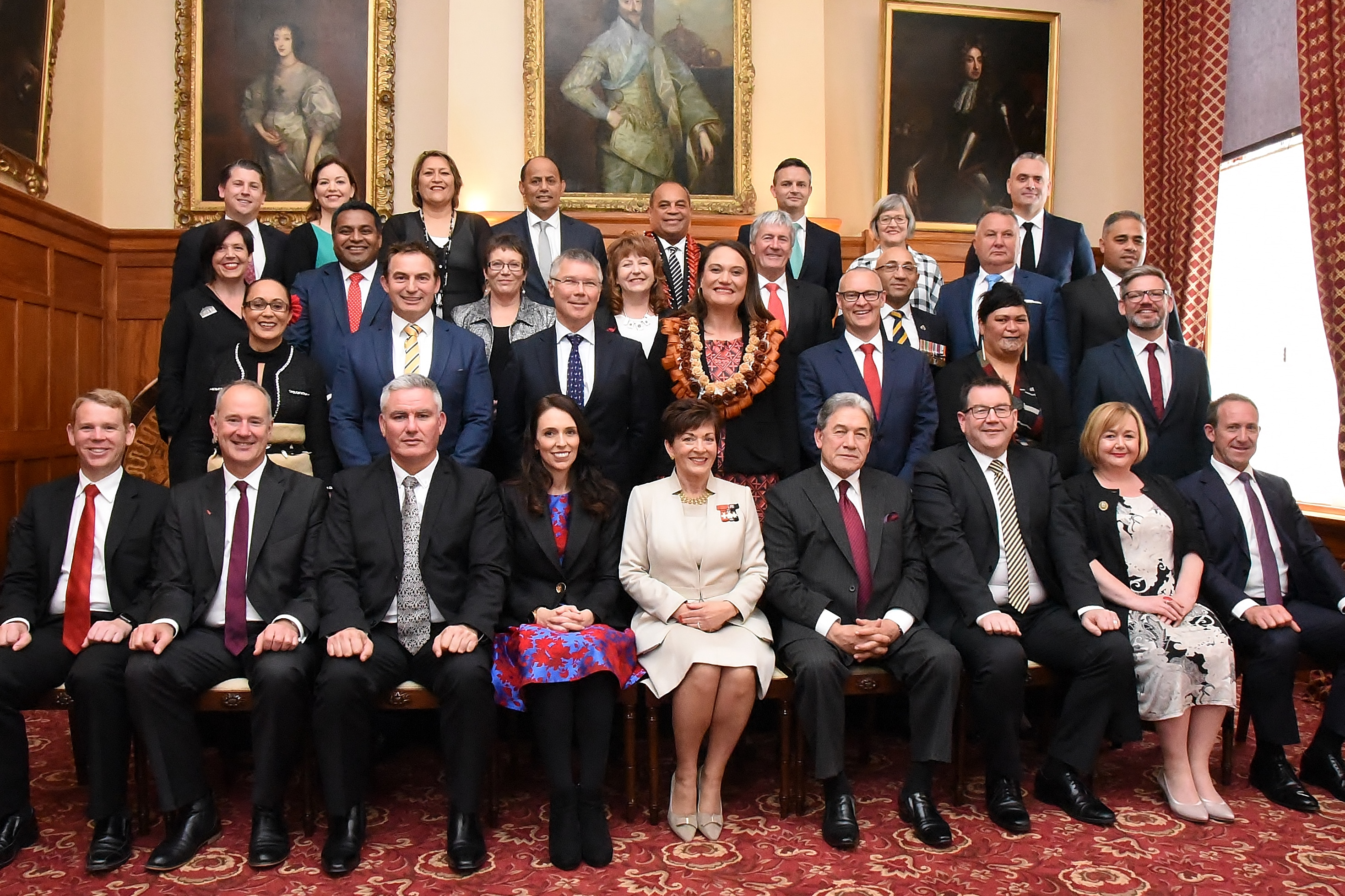 New Zealand government in 2017. Governor-General Patsy Reddy is seated front, centre; she is flanked by Jacinda Ardern, left, and Winston Peters, right.